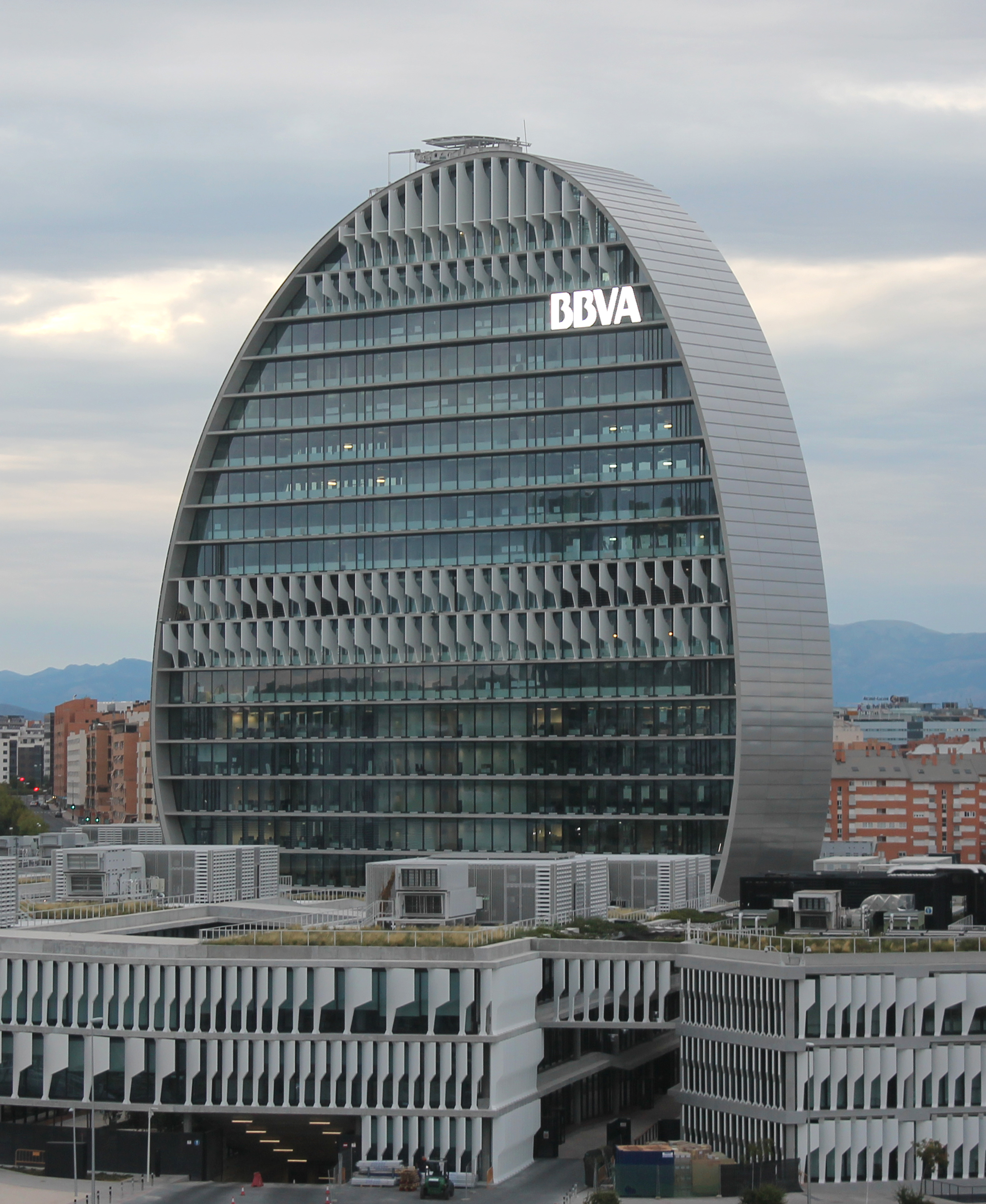 View of La Vela building in Madrid (Spain).